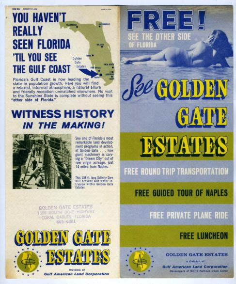 Real estate sales brochure by the Gulf American Land Corp. advertising land that would be come to be known as a "swampland in Florida" land scam. Page 1 of 2